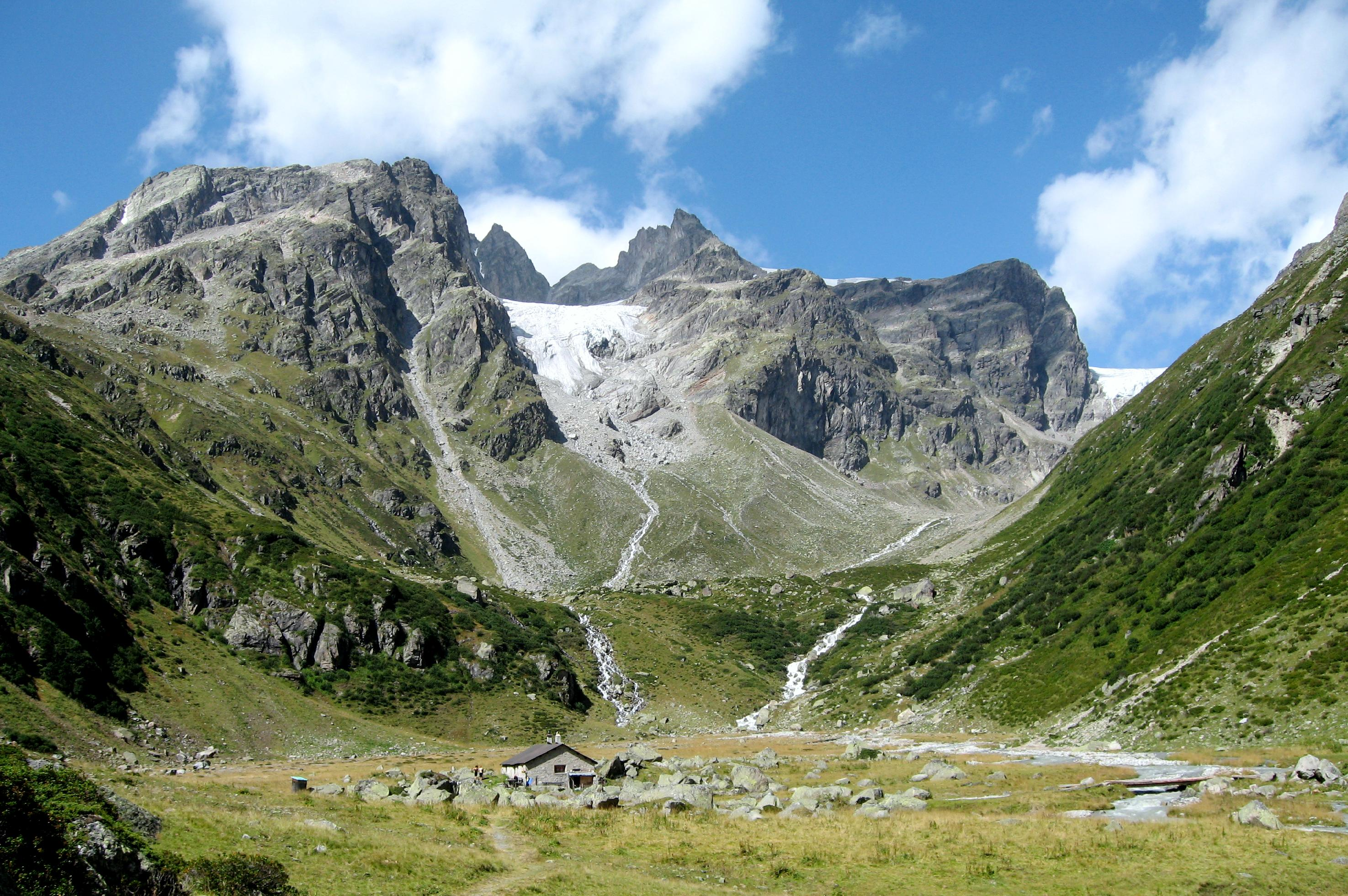 Verstanclahorn (north of Lavin, Graubünden), in front: Chamanna Marangun